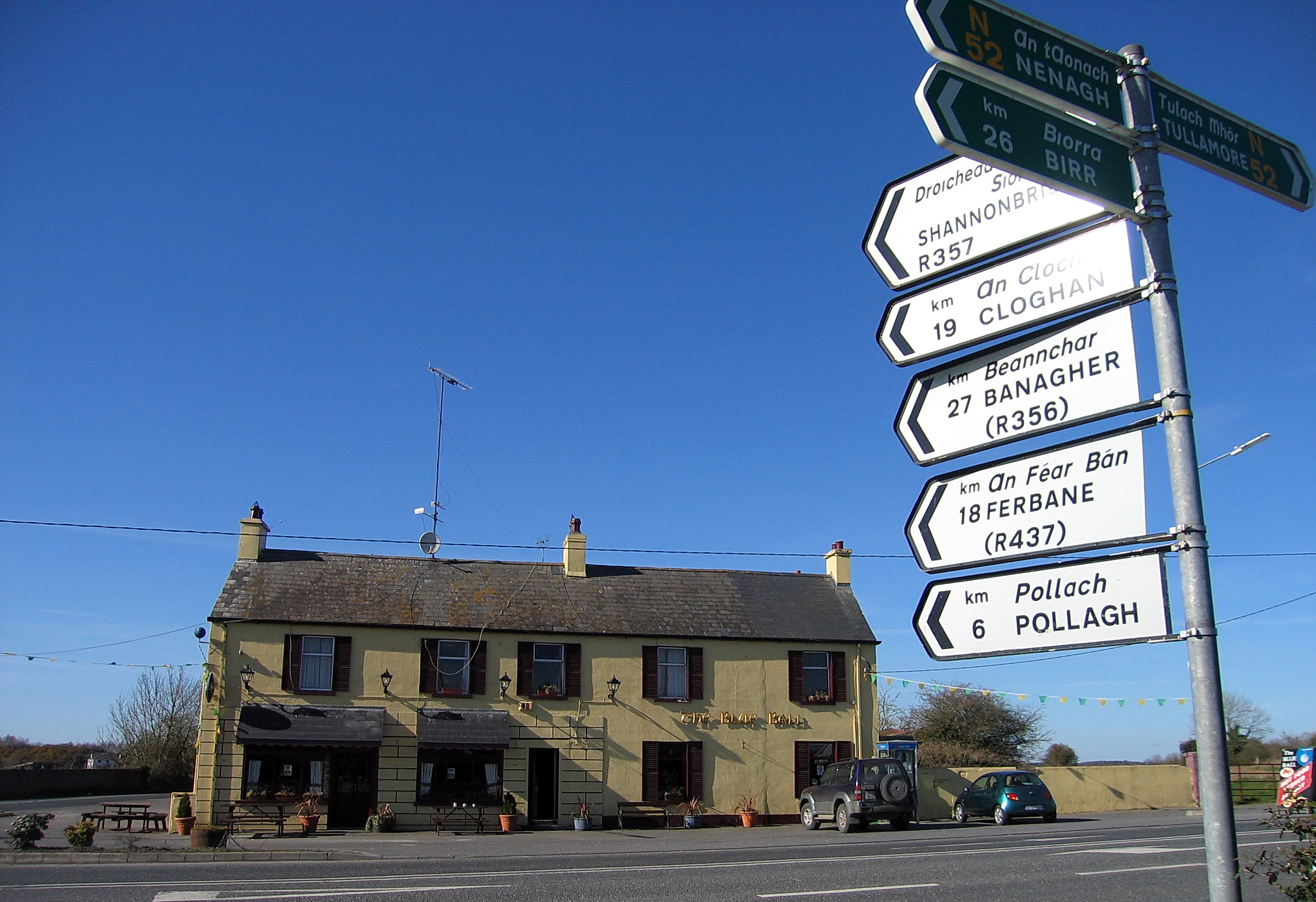 Blue Ball, County Offaly